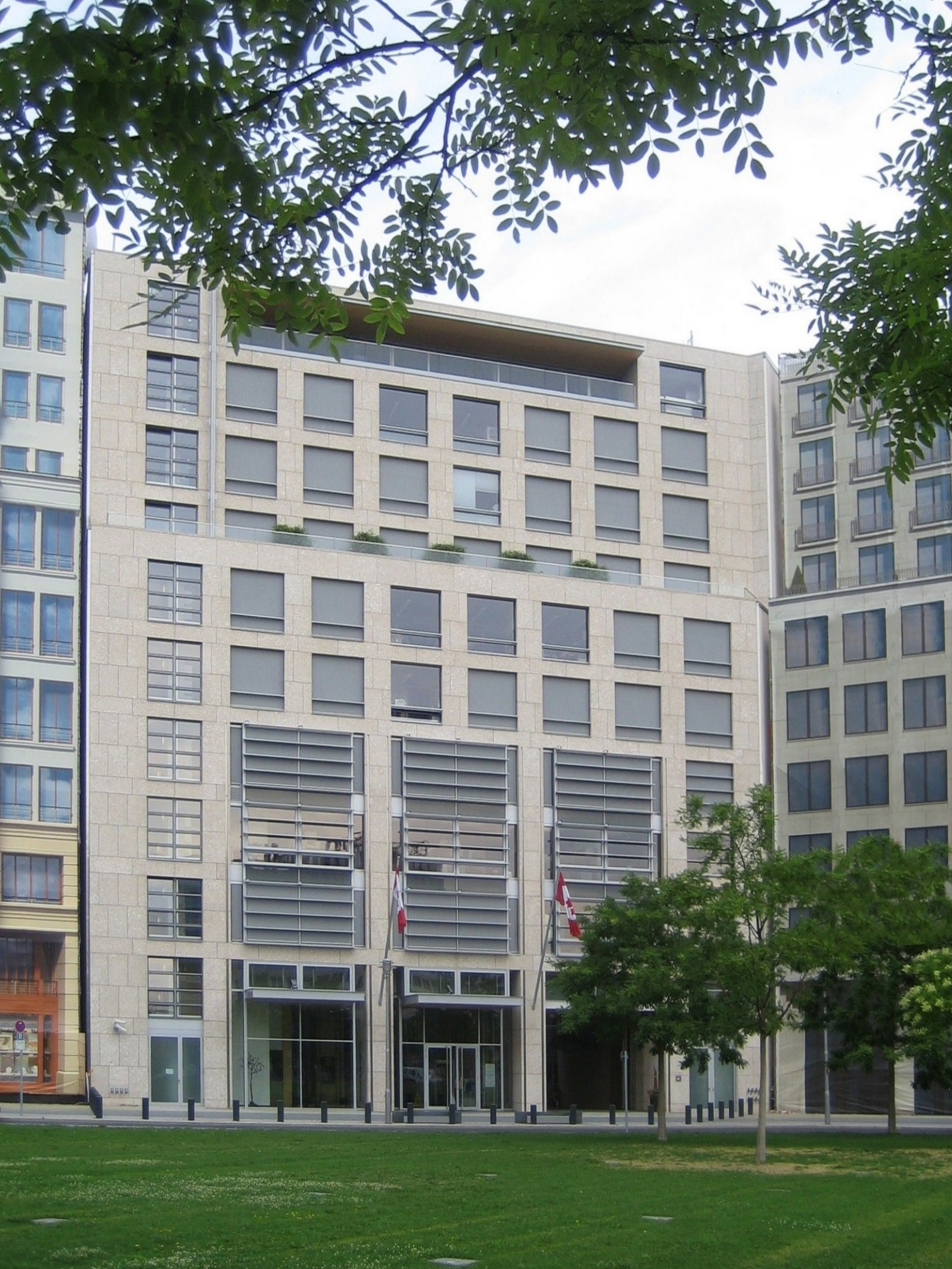 The Canadian embassy in Berlin.